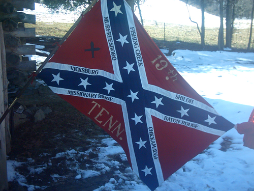 Photo of the regimental flag of the 19th Tennessee Infantry Reenactors